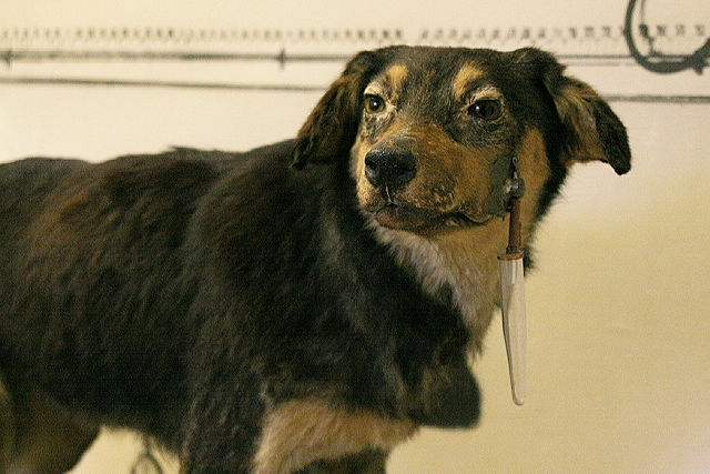 One of the many dogs Pavlov used in his experiments (possibly Baikal[1]), Pavlov Museum Ryazan, Russia. Note the saliva catch container and tube surgically implanted in the dog's muzzle.